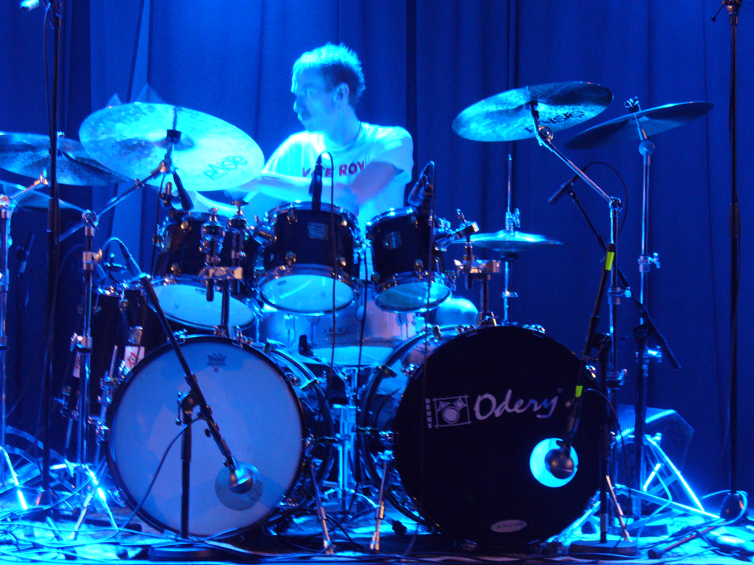 Kenneth Kappstad and Grand General at Vossajazz 2014.